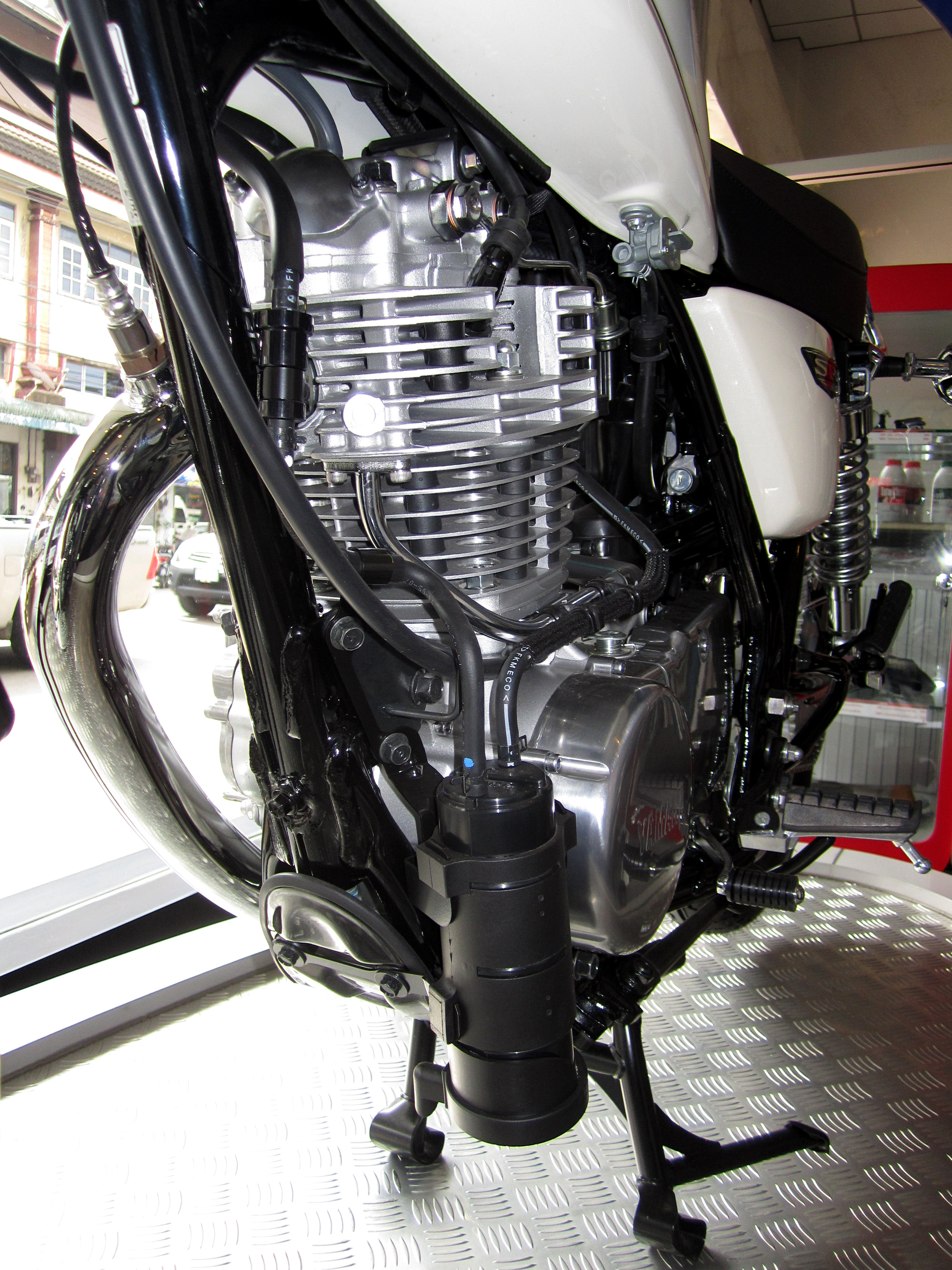 Yamaha SR400 (2014). In the lower foreground, an unsightly EVAP canister protrudes like an afterthought -- required in California, USA.